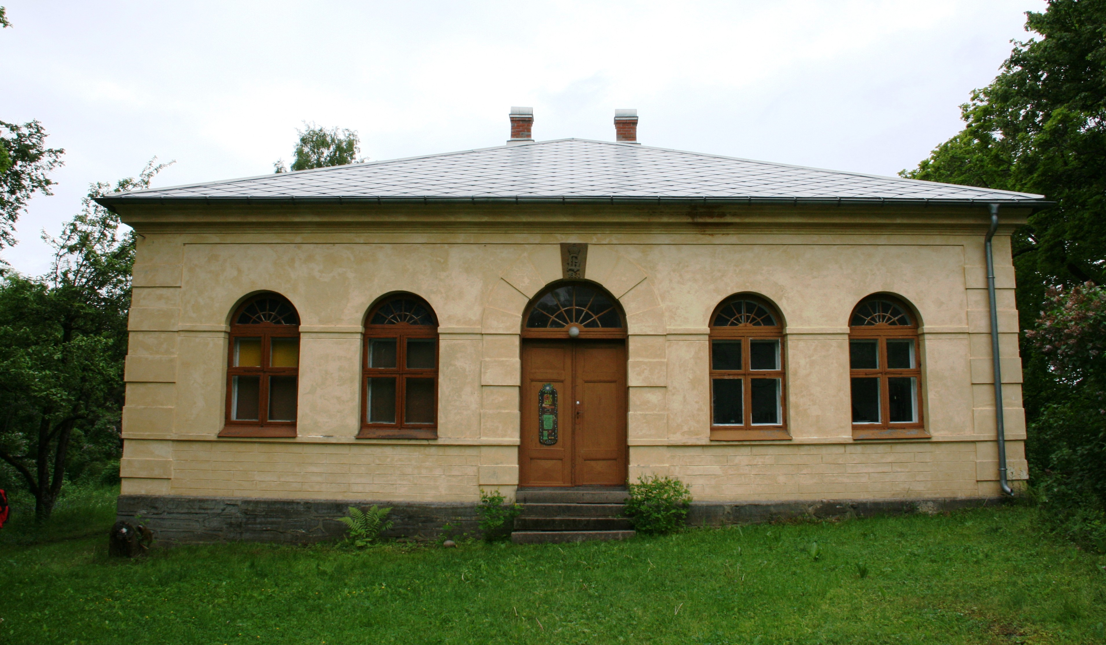 Officers house on Hovedøya in Oslo